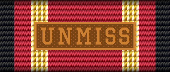 Ribbon bar: German Armed Forces Service Medal (Bronze) with UNMISS clasp.